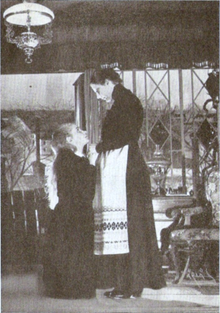 Doris Svedlund as Eleonora and Dora Söderberg as The Mother in August Strindberg's "Easter" at the Royal Dramatic Theatre's studio in Stockholm in 1946.